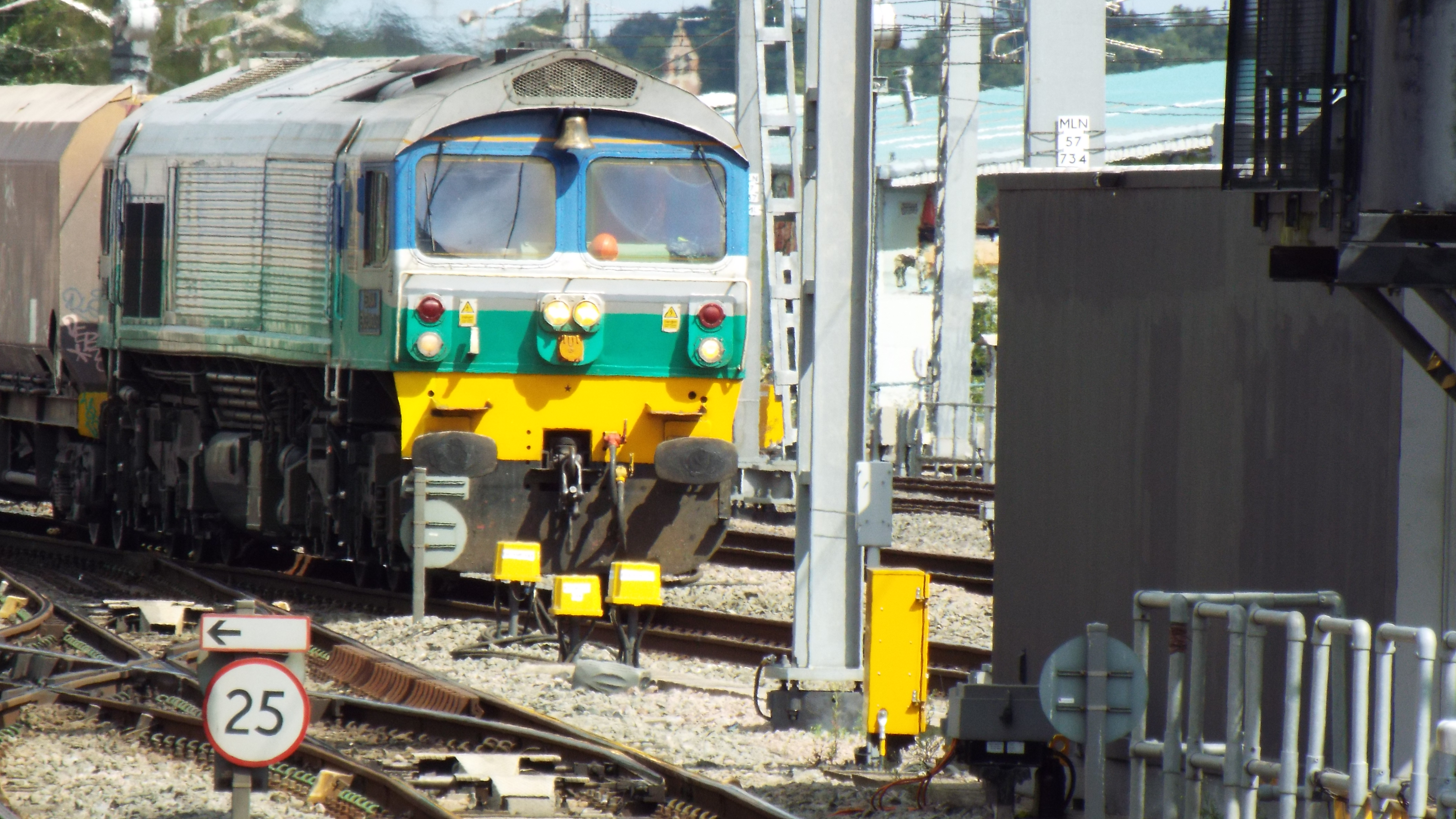 59001 in Aggregate Industries Livery at Reading Station in 2019